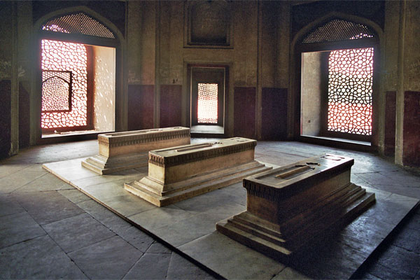 Humayun’s Tomb, New Delhi, India